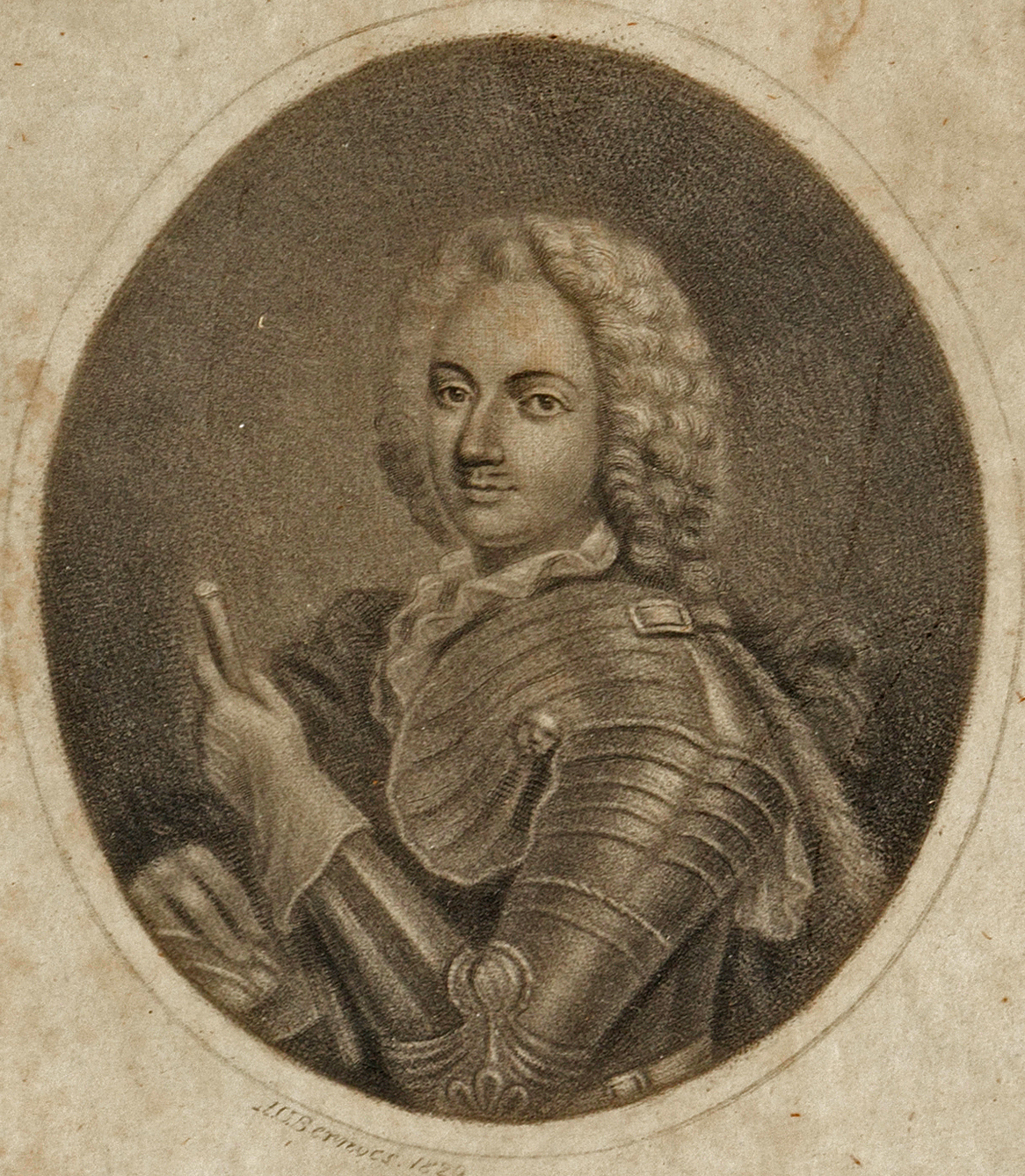 Magnus Stenbock. Engraving by Anton Ulrik Berndes from 1820.